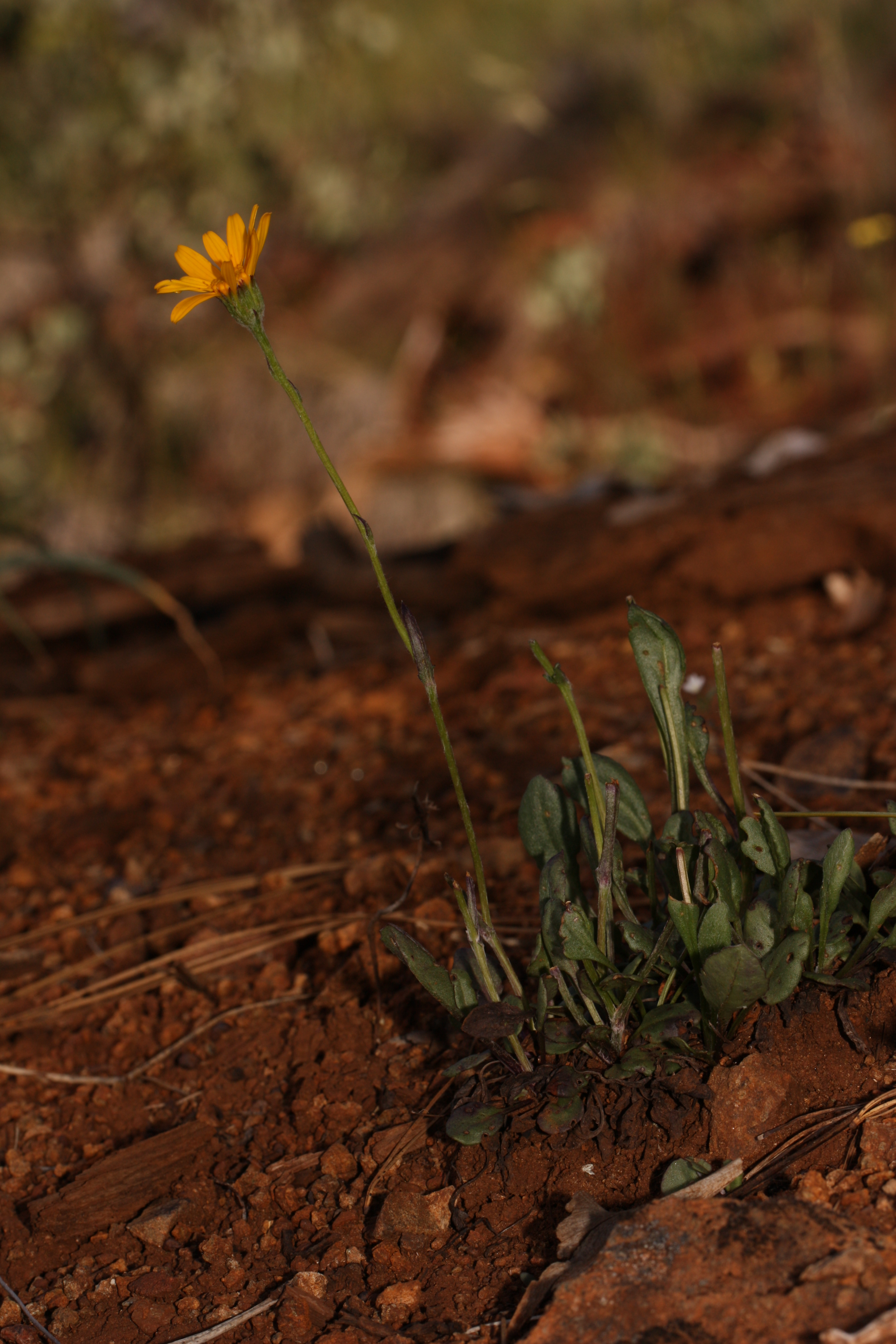 Siskiyou Butterweed Viewpoint location: Little Falls Trail, T. J. Howell Botanical Drive Viewpoint elevation: 406 meter (1332 ft) Location source: Garmin GPSmap 60CSx Location Datum: WGS84